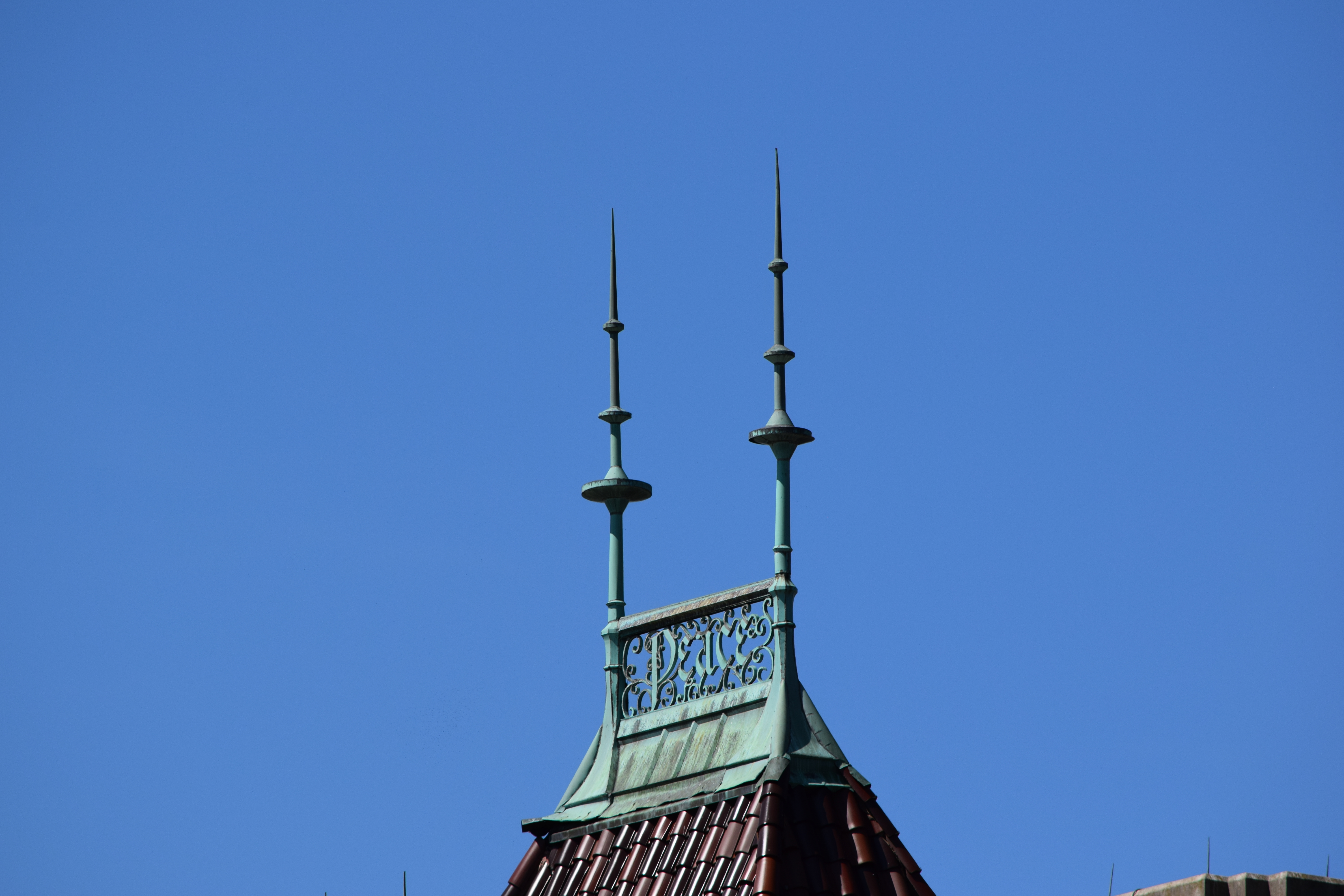 Woodmont (Gladwyne, Pennsylvania)